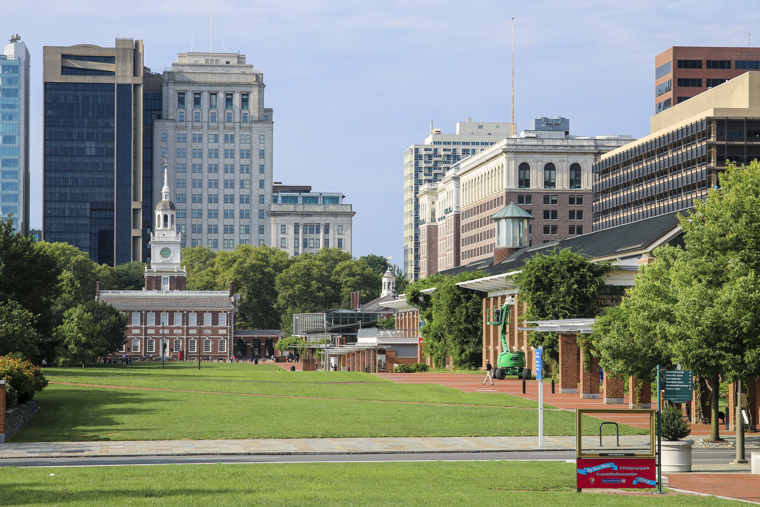 Independence Mall in 2019